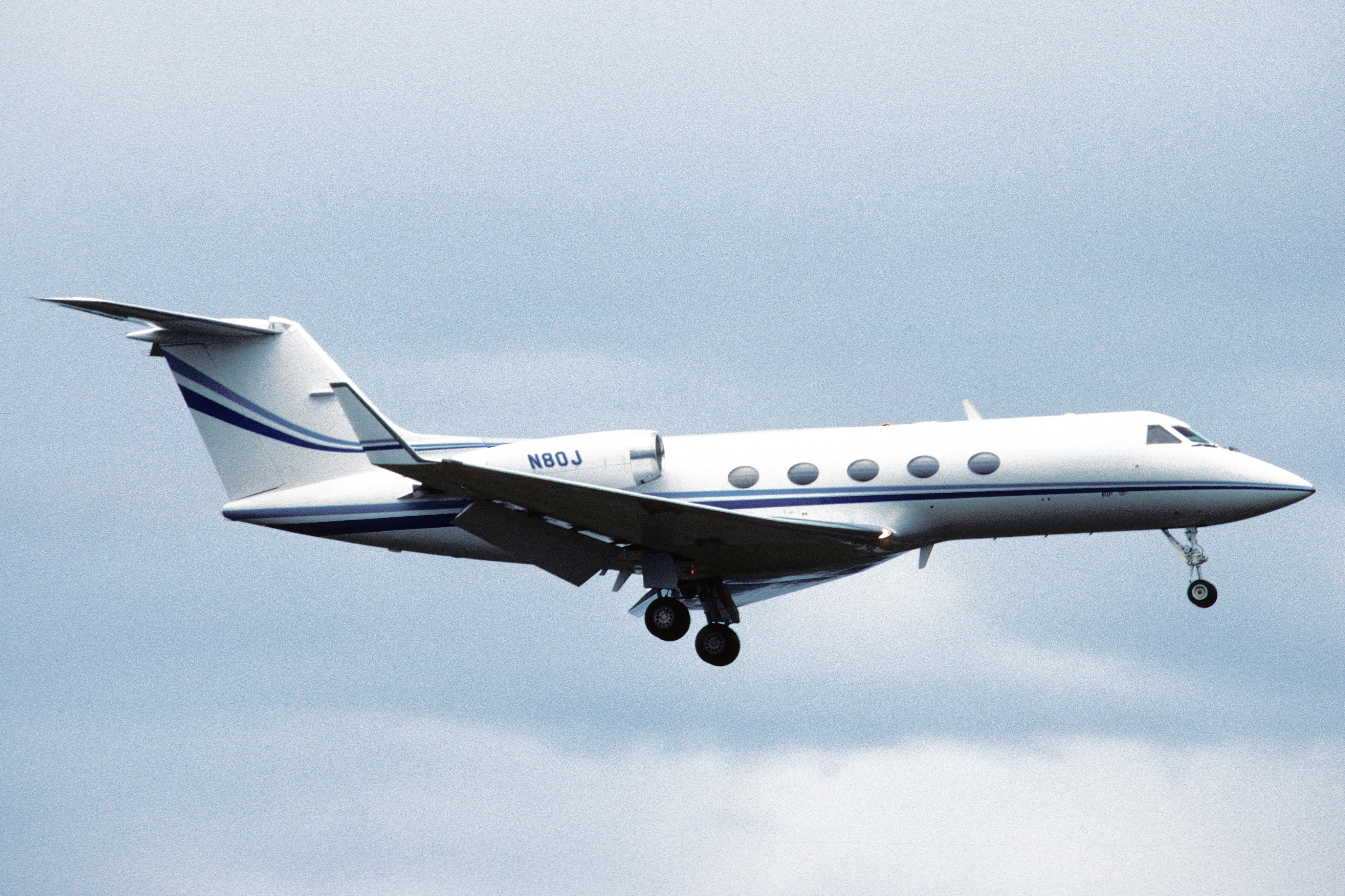 old pictures